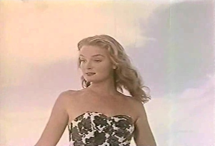 Actress Betsy Jones-Moreland in "Last Woman on Earth" (Public Domain Film)